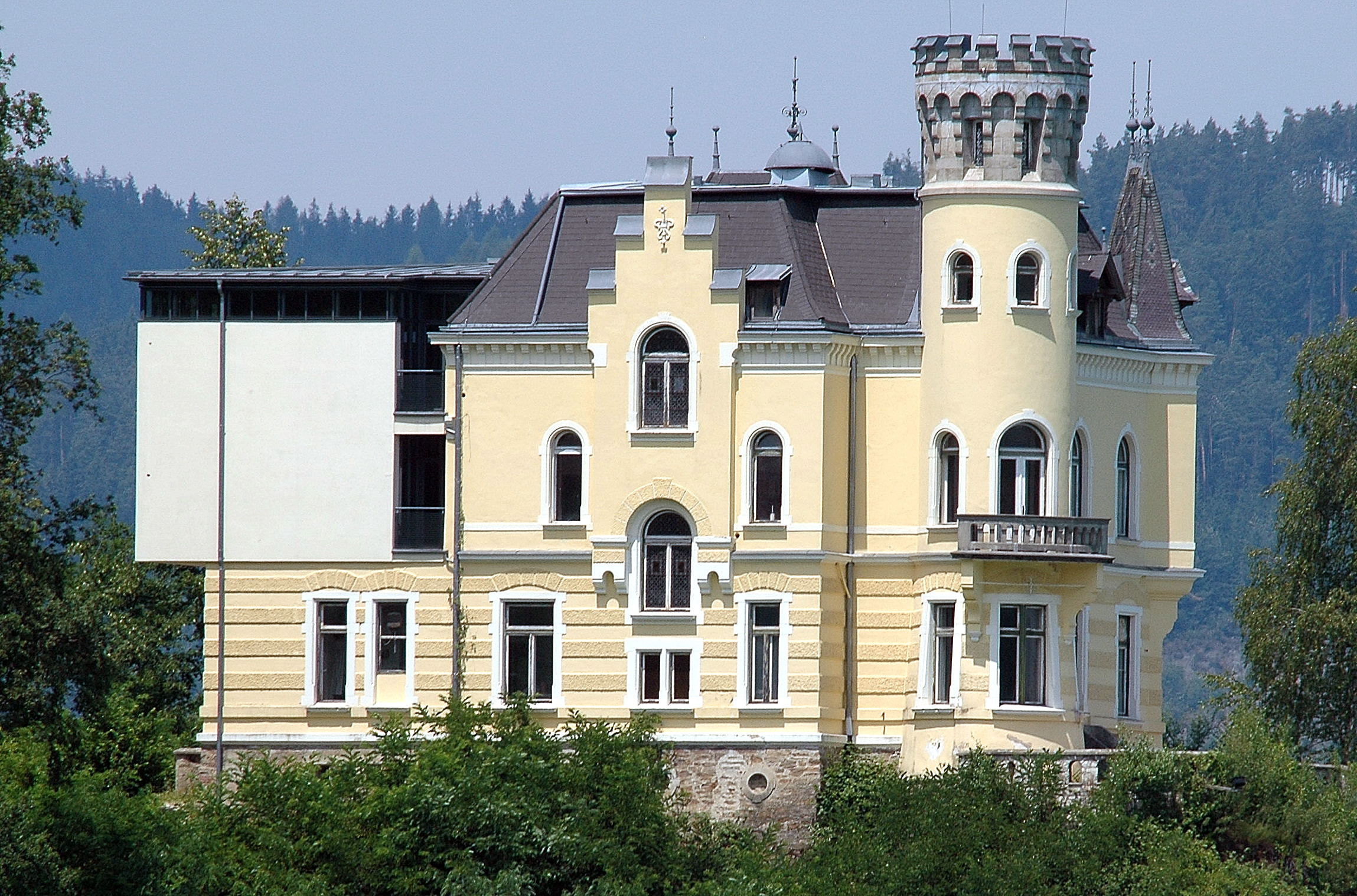 Castle "Small Miramar" (year of creation 1898) at Reifnitz, municipality Maria Woerth, district Klagenfurt Land, Carinthia / Austria / EU